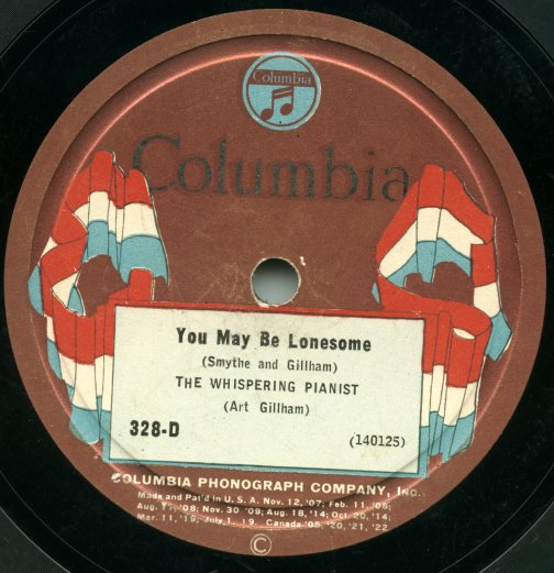 Columbia Flag label of the first Western Electric master to be released - Art Gillham's own composition "You May Be Lonesome". Recorded February 25, 1925.